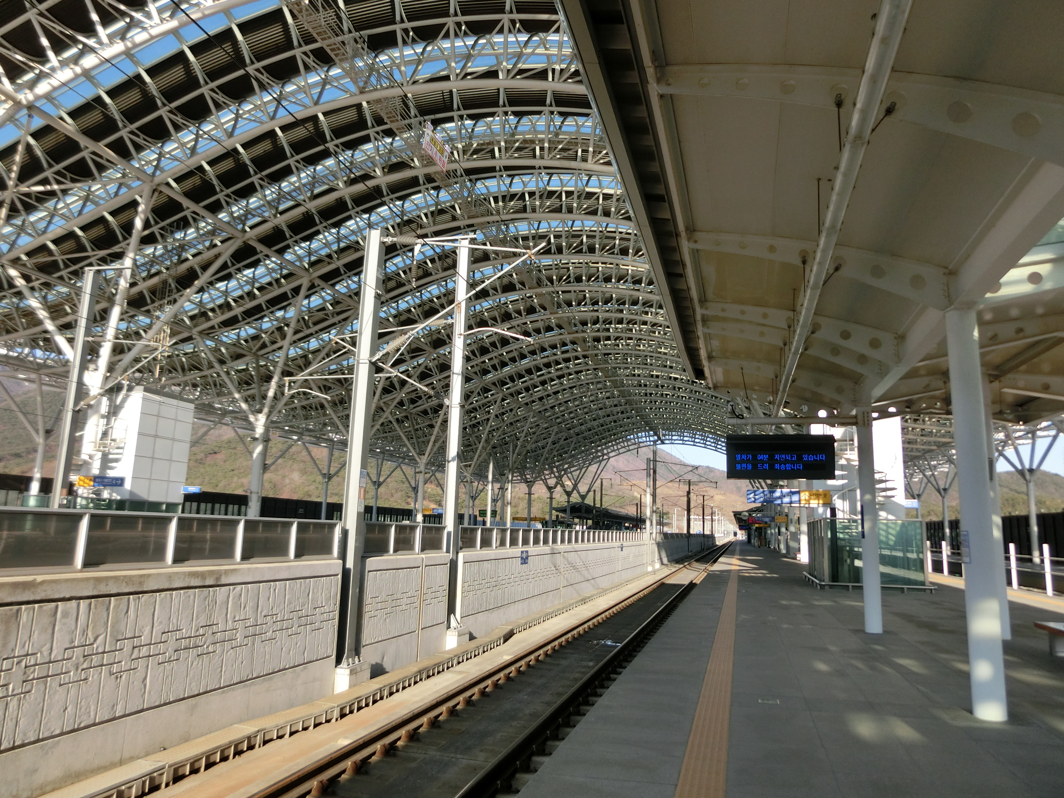 Singyeongju Station